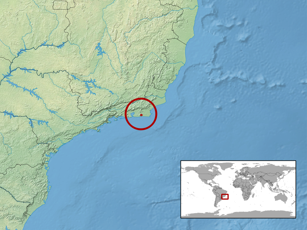 geographic distribution of Amphisbaena scutigerum syn Leposternon scutigerum (Native: Brazil (Rio de Janeiro))